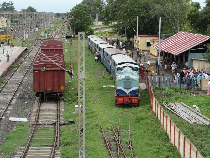 Pachora Junction Railway Station Photos